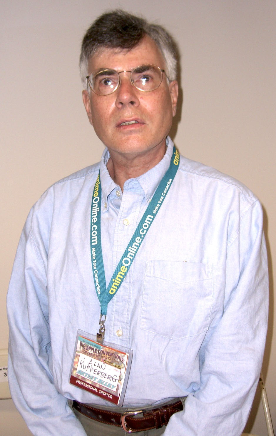 Comic book creator Alan Kupperberg at the Big Apple Convention in Manhattan, April 20, 2008.Photo by Luigi Novi. This photo may be used, modified and published for any purpose, only if the photographer is visibly credited in each instance in which it is used. (See licensing information below.) For more information on my photos, you can contact me here. The copyright holder of this file allows anyone to use it for any purpose, provided that the copyright holder is properly attributed. Redistribution, derivative work, commercial use, and all other use is permitted.